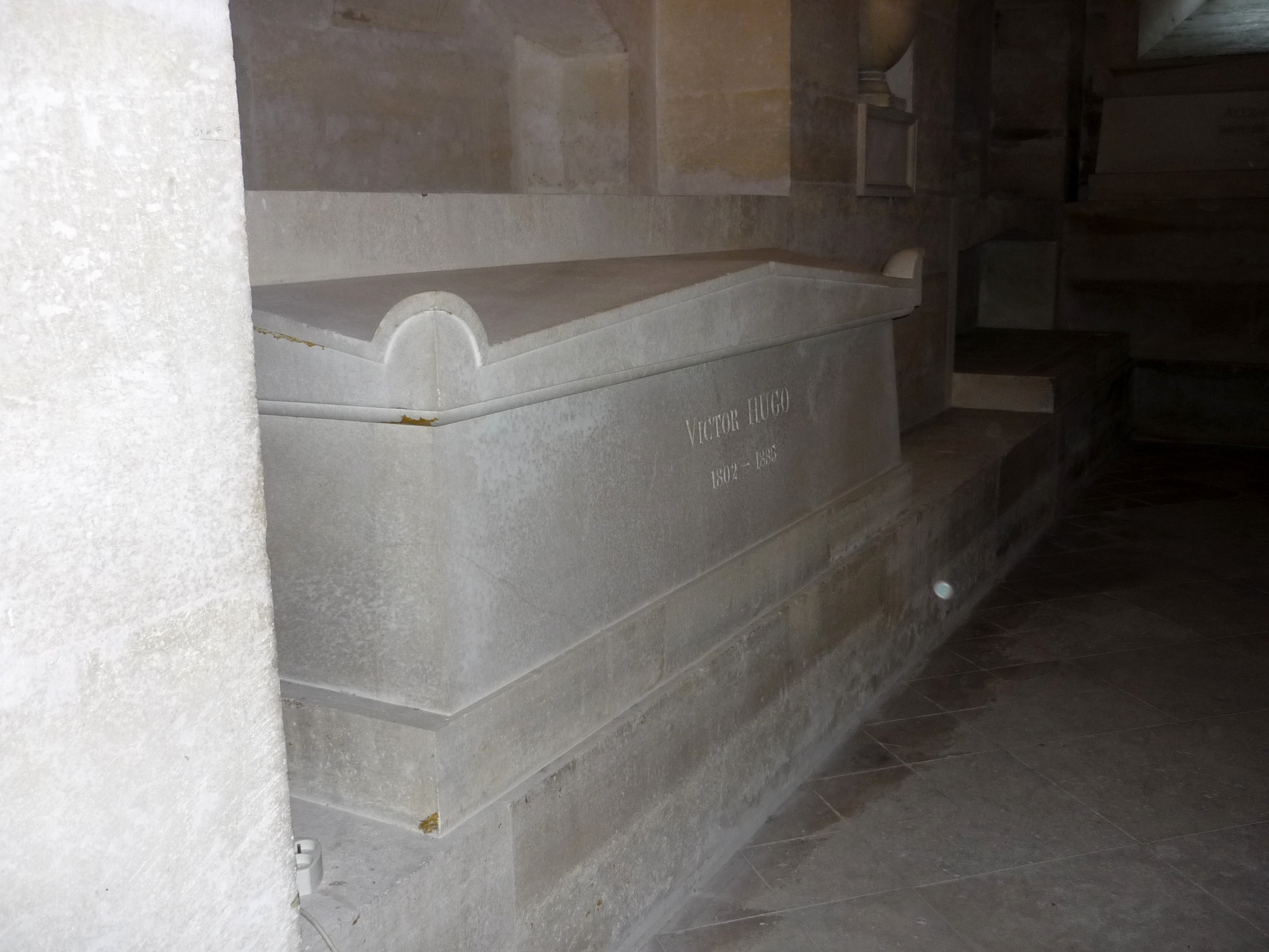 Victor Hugo's grave, Panthéon, Paris, France